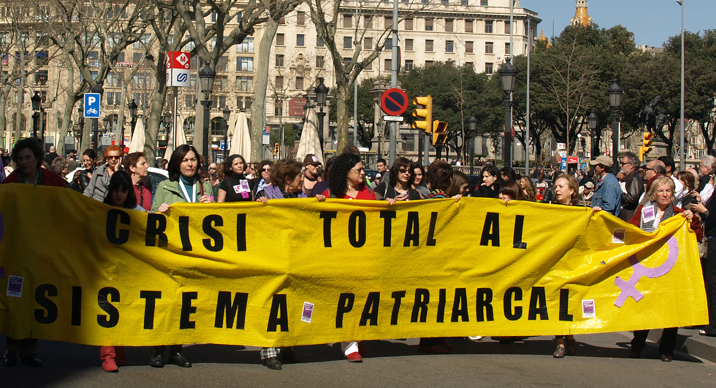 International Women's Day in Barcelona, Spain (2009). The motto, written in Catalan, says: "Total crisis in the patriarchal system".